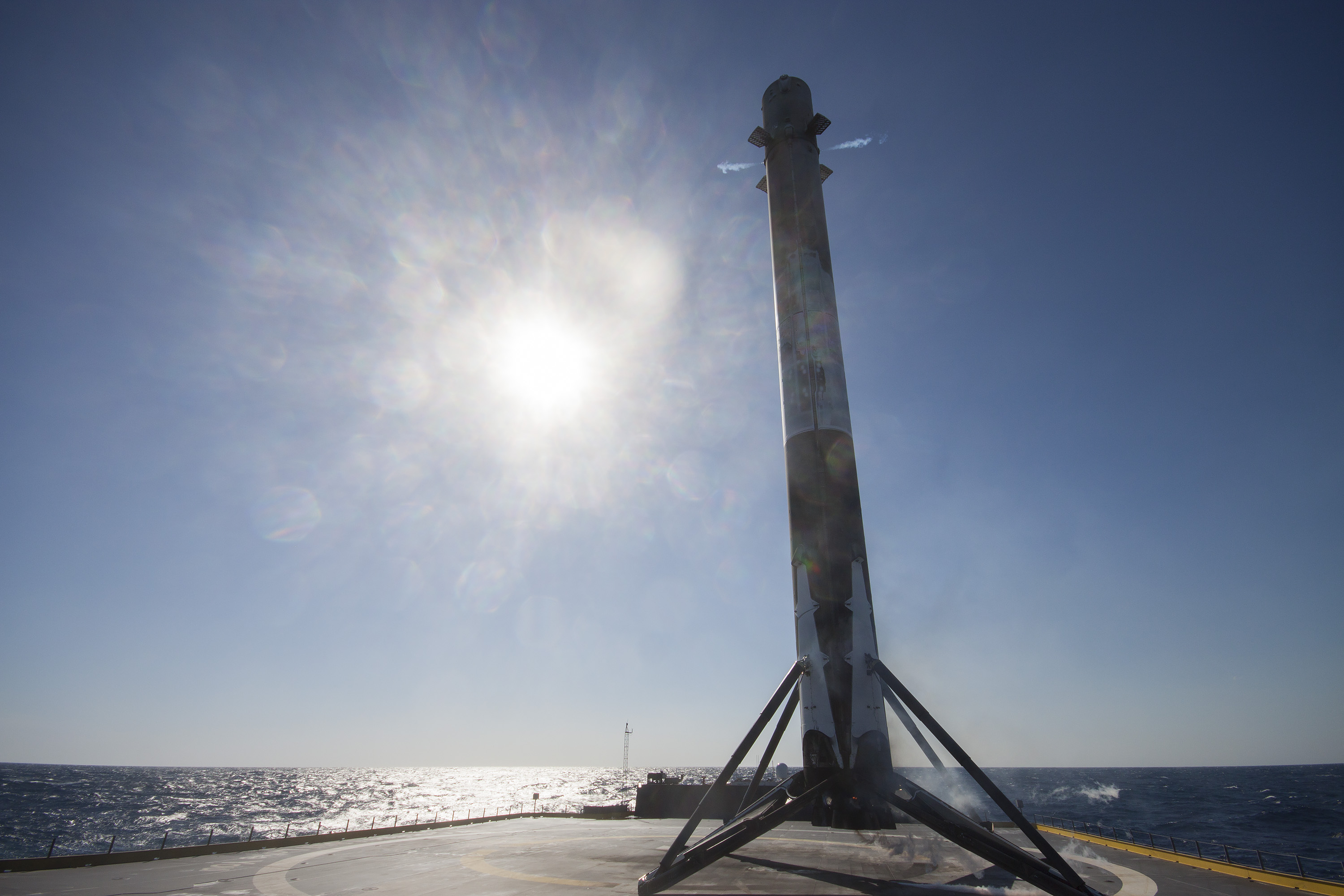 First stage of the SpaceX Falcon 9 rocket successfully landing on the commissioned Autonomous Spaceport Drone Ship for the first time on April 9. The mission, CRS-8, also launched the Dragon spacecraft to orbit.